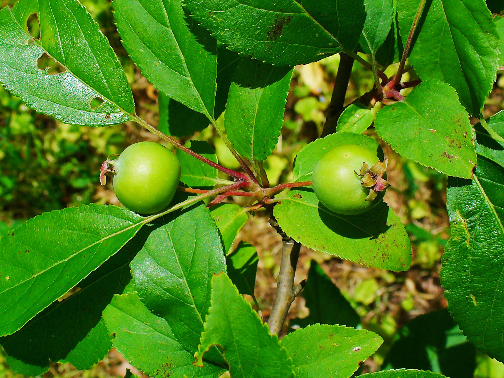 Malus sylvestris, Rosaceae, European Wild Apple, developping fruits; Botanical Garden KIT, Karlsruhe, Germany.